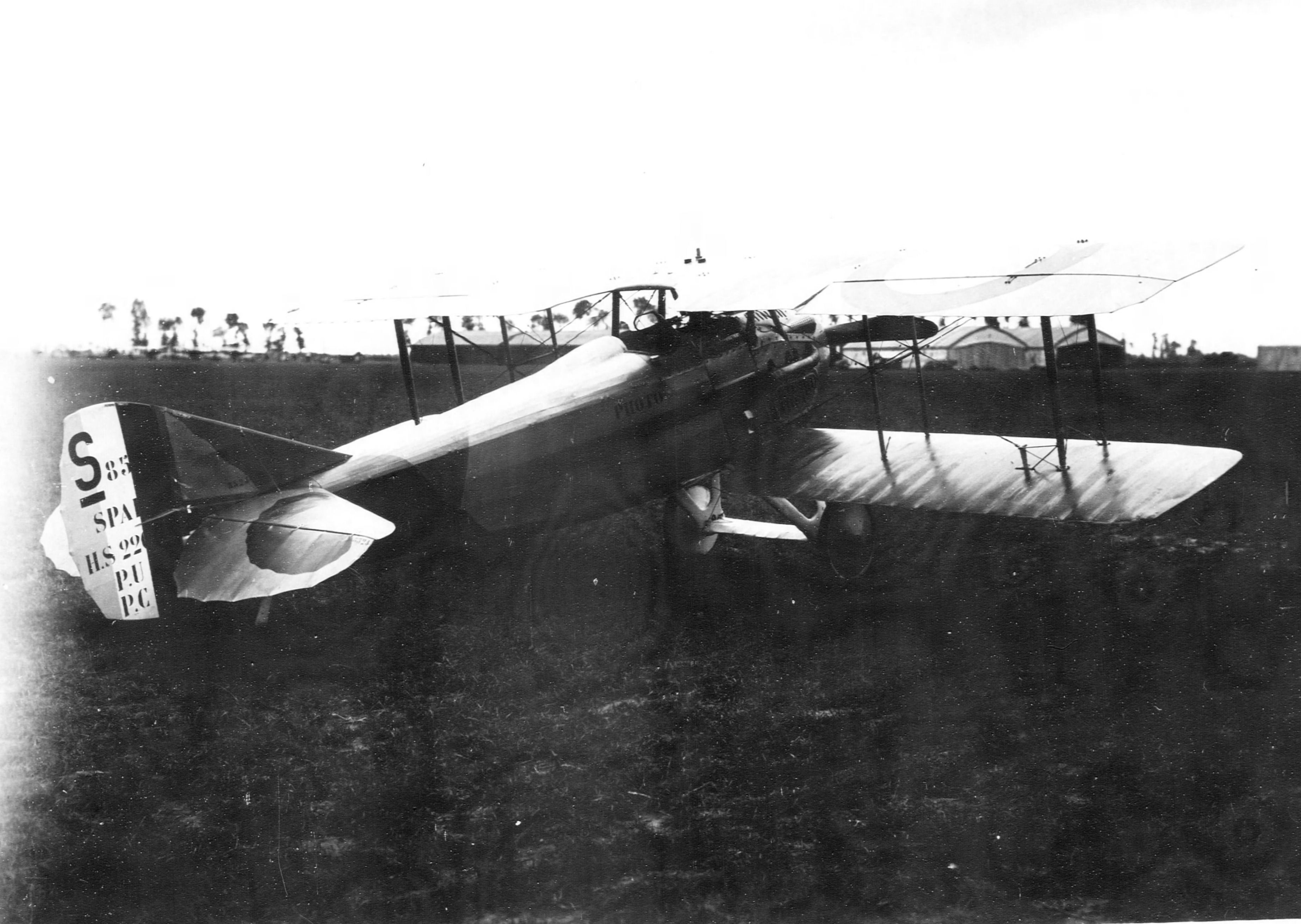 SPAD S.XIII at at Air Service Production Center No. 2, Romorantin Aerodrome, France, 1918